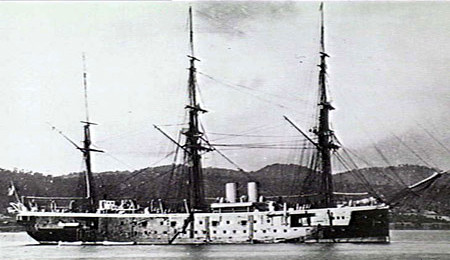 AWM Caption: HOBART, TAS. 1884. STARBOARD SIDE VIEW OF THE ARMOURED CRUISER HMS NELSON, FLAGSHIP OF THE AUSTRALIA STATION. NOTE THE EMBRASURES FORWARD AND AFT IN THE HULL FOR HER 10 INCH 18 TON RIFLED MUZZLE LOADING (RML) GUNS. THE FOUR PORTS ALONG HER SIDE ARE FOR HER 9 INCH 12 TON RML'S.